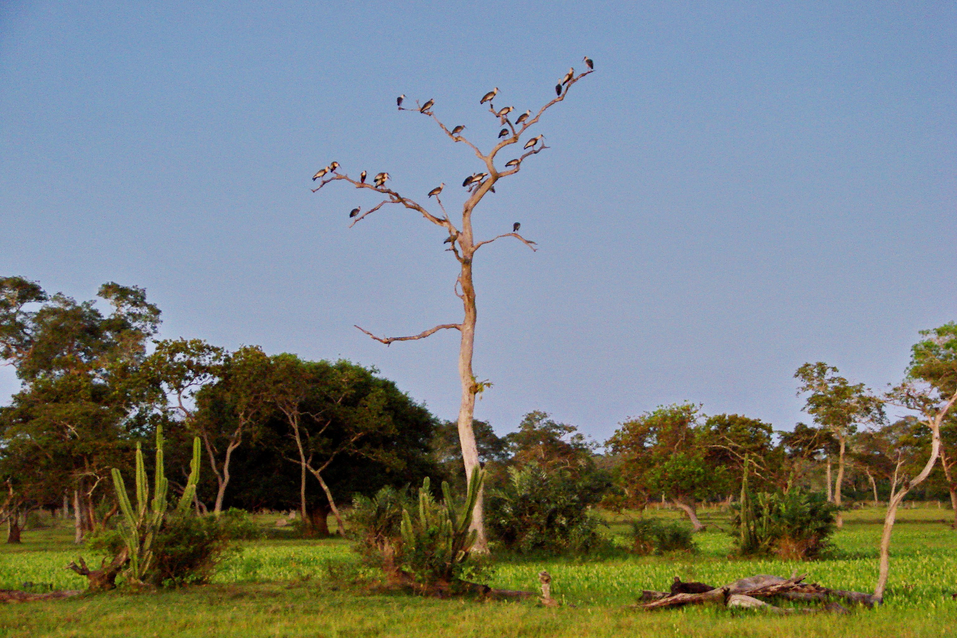 Pantanal evening